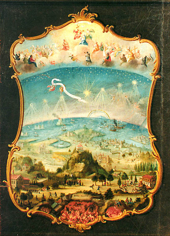 Late 18th- century educational picture board from the school of Zlatá Koruna (near Český Krumlov). Heaven, earth and hell